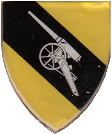 SADF era Longtom Commando emblem